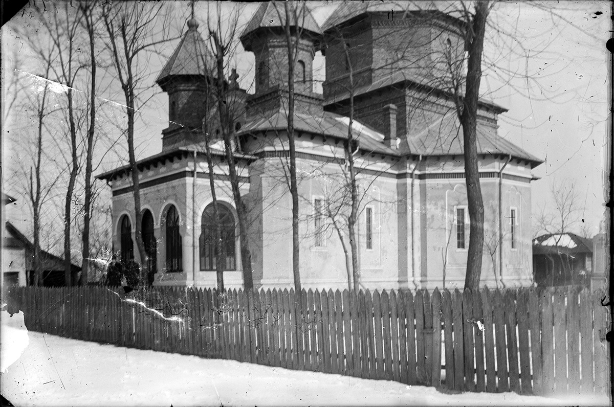 Biserica parohiala din comuna Perieti, Ialomița The project Costică Acsinte Archive needs help: please donate and share the link igg.me/at/acsinte/x/6146081